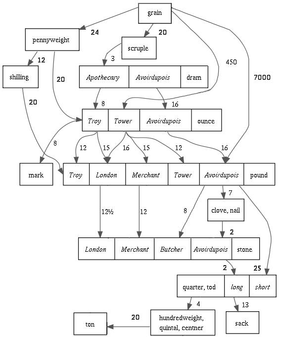 Graph showing the relations of classic English units of mass (weight). Image is in quick JPEG format to allow auto-thumbnailing without overlapping labels (at width 180px or lower).